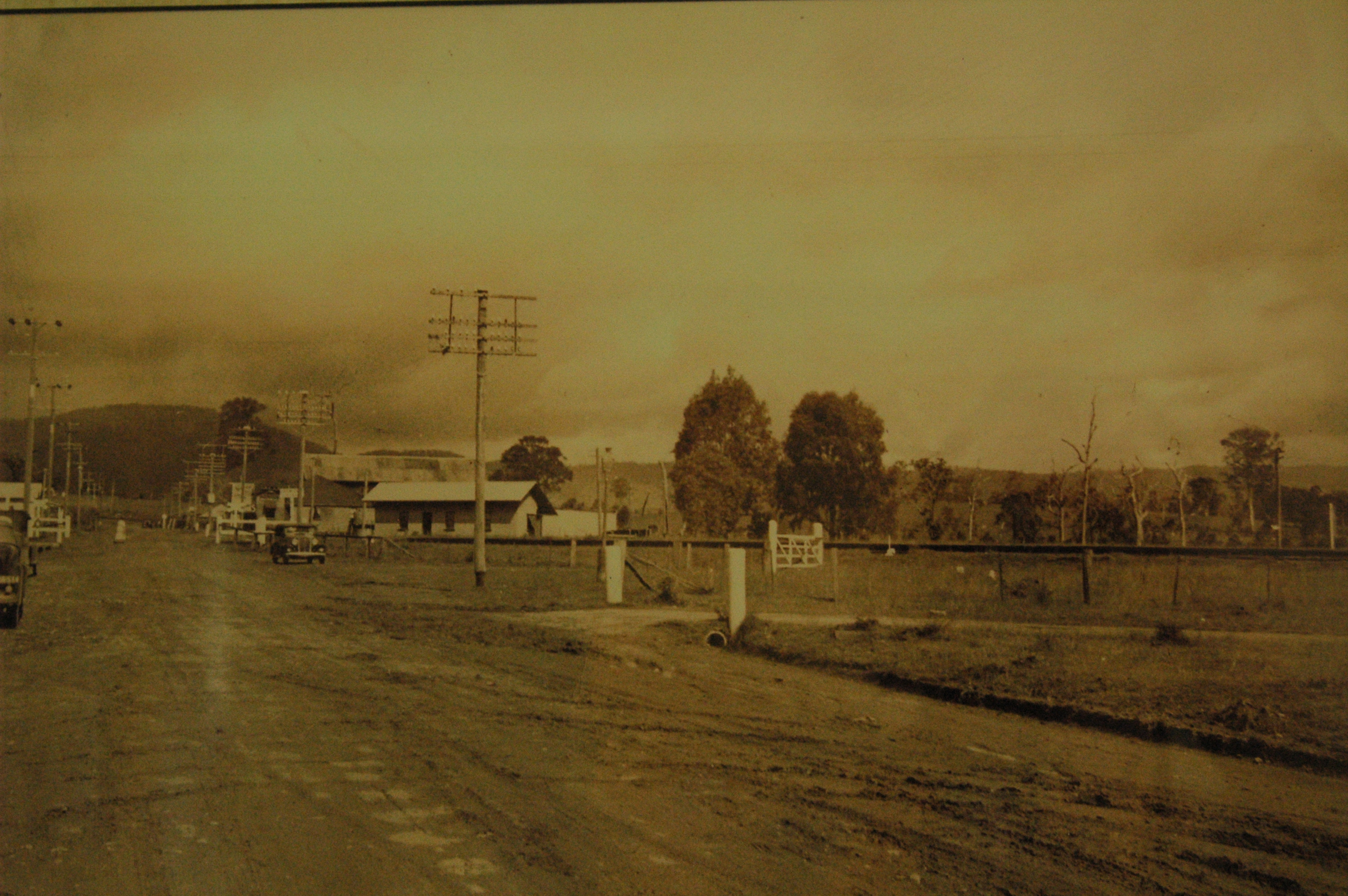 Samford, Queensland, 1920s View of Camp Mountain South West from Main Street. Note former rail crossing and railway station. Alan McKernan Nikon D70. Picture of an old picture